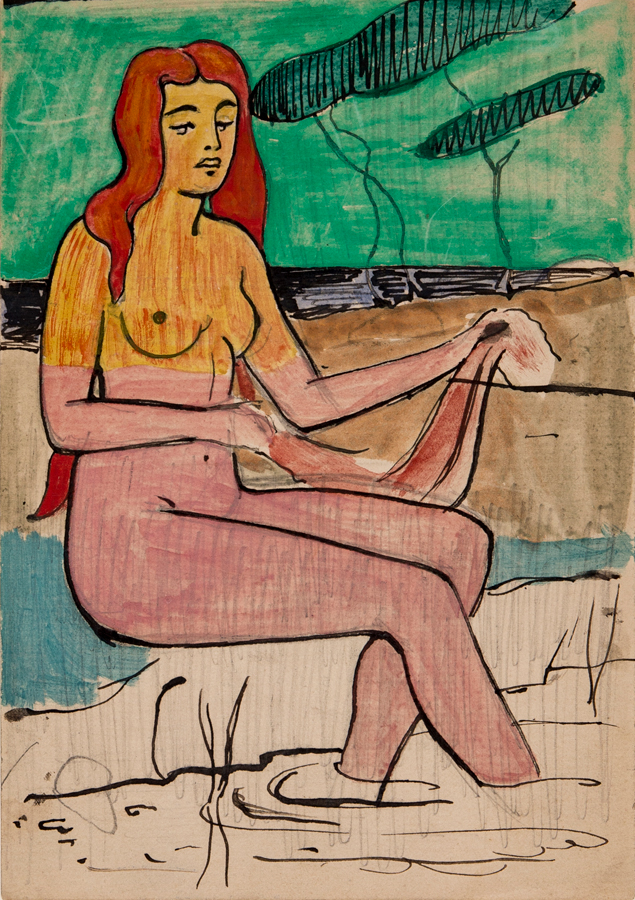 The Bather, possibly Tahitian. Pencil, ink and watercolour on reverse of form advertising violin lessons given by Leonard Forbes-Robertson, 25 Charlotte Street. Circa 1893. Provenance: Artist’s family descent. 6.5x4.5 inches.